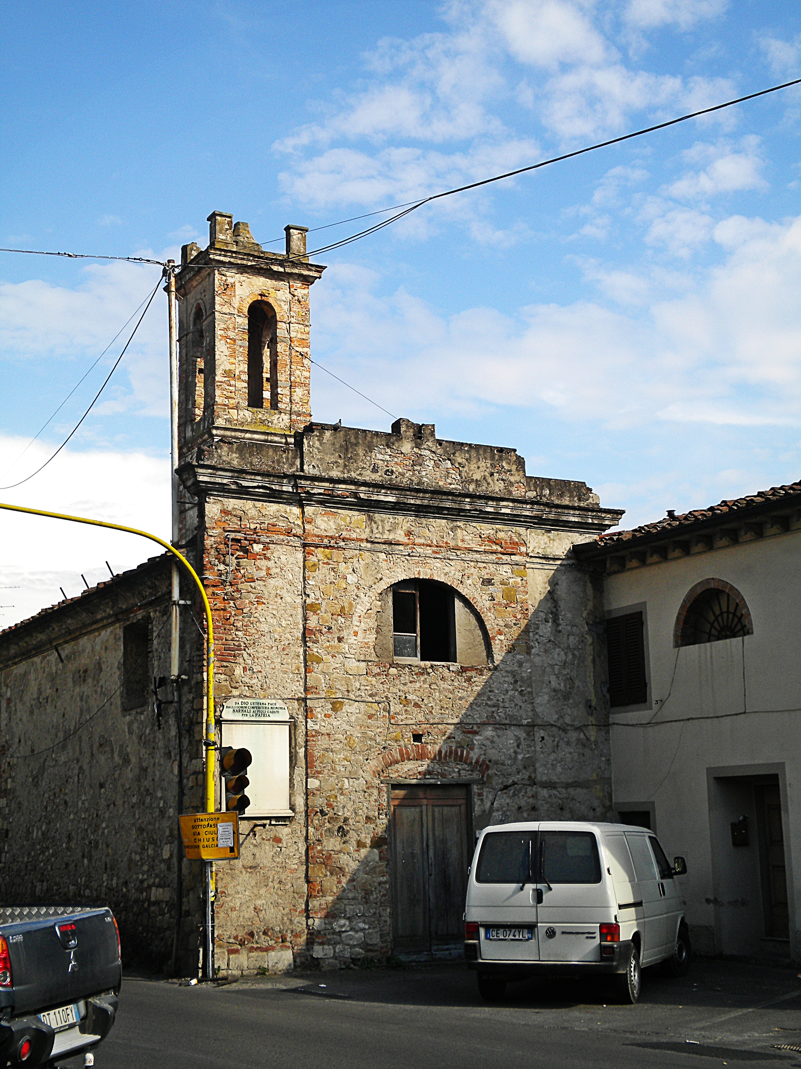 the old church